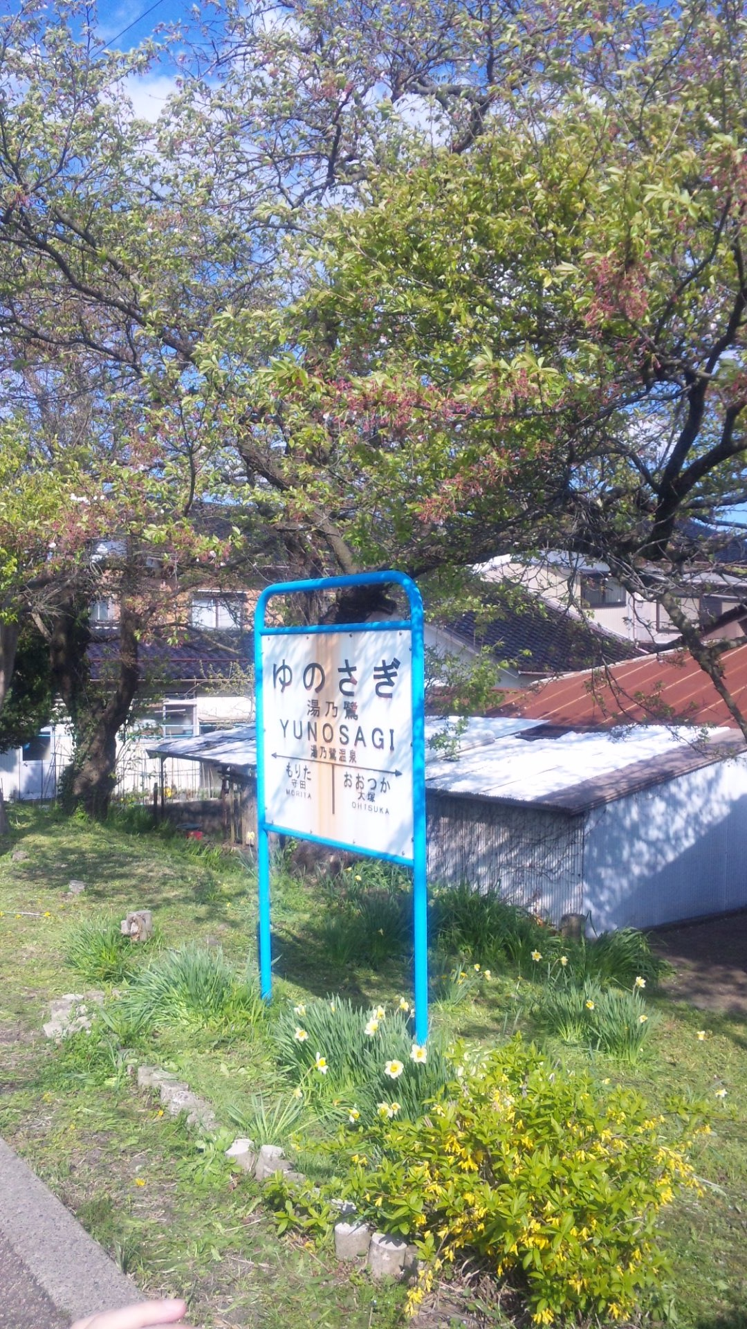 "Yunosagi Station" signboard installed at Noto Railway Nishigishi Station. It was installed for the event of Hanasaku Iroha.